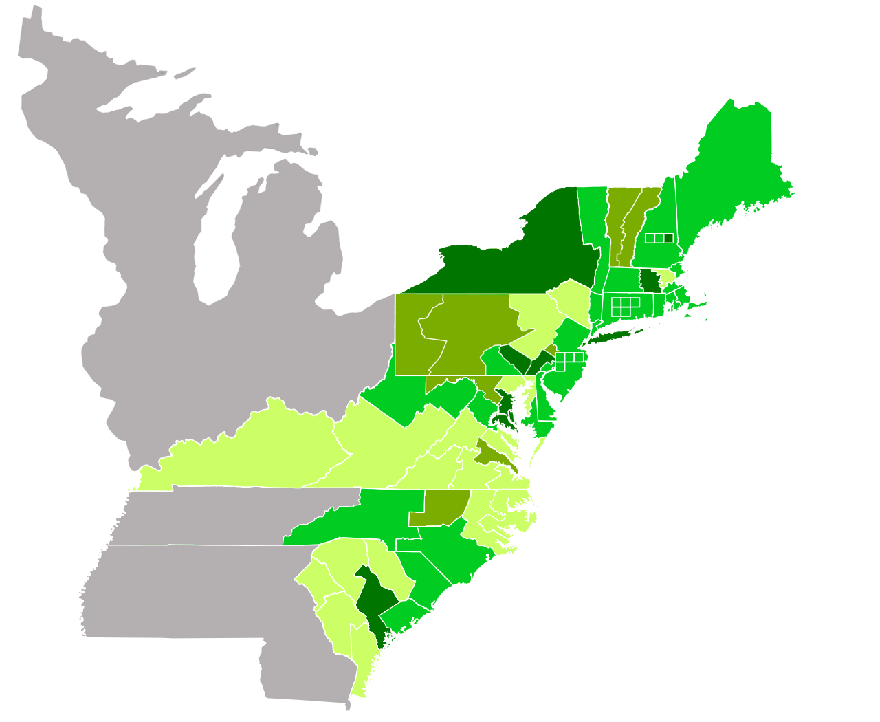 Light green signifies anti-administration win, dark green signifies pro-administration win